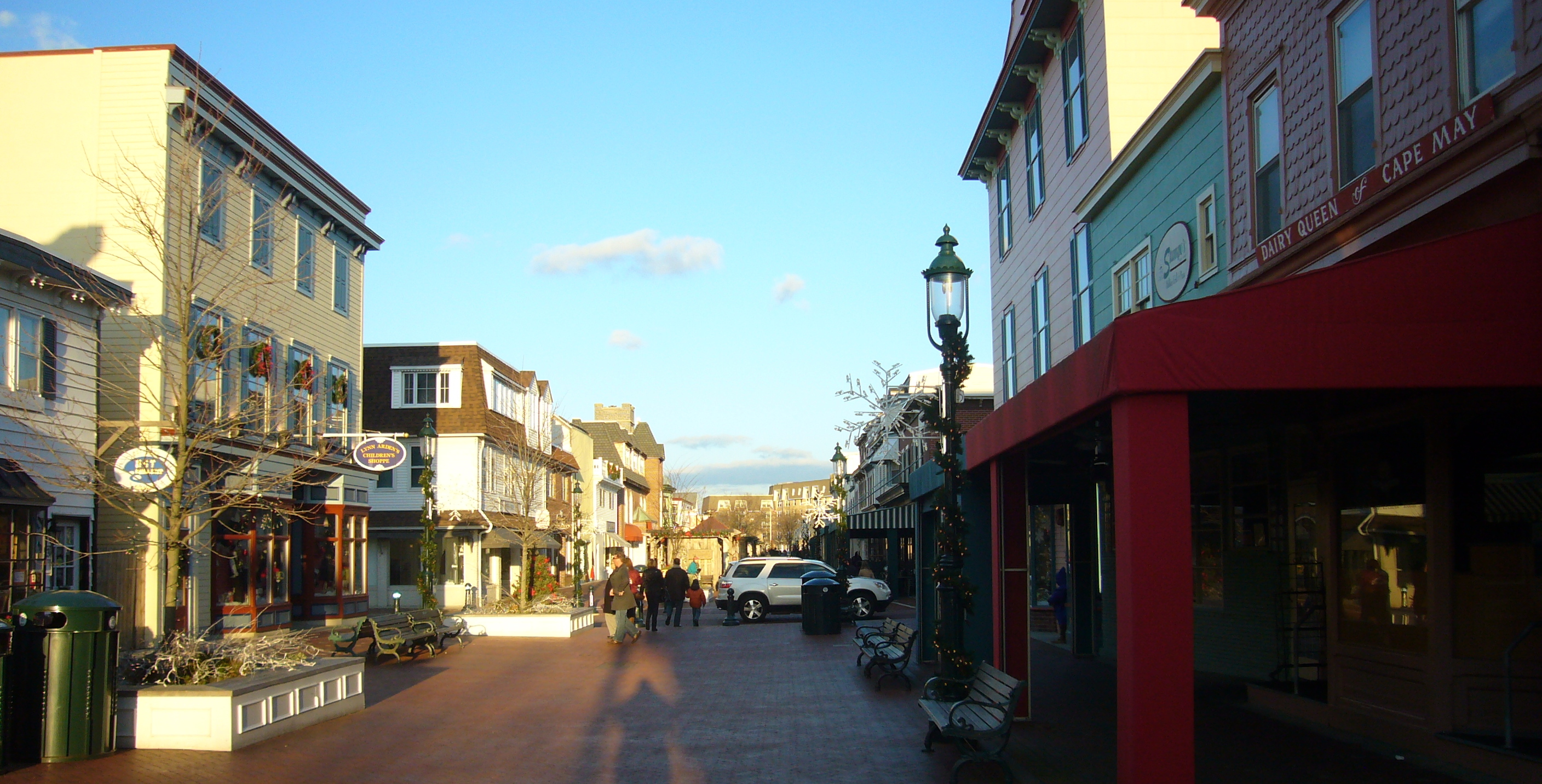 Street scene, Washington Street Mall, Cape May, New Jersey, USA.